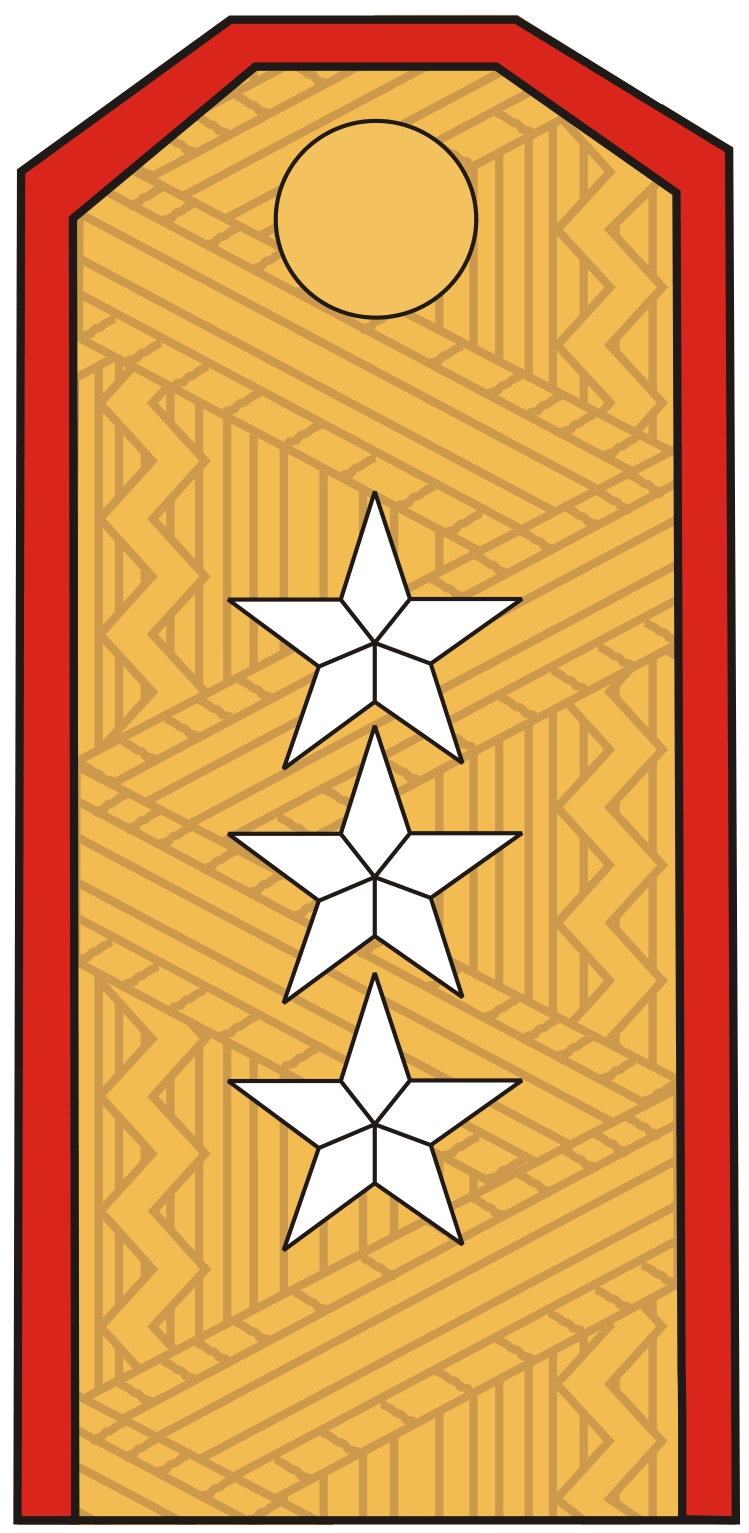 Russian rank insignia (1943-1945), here "Colonel general" (OF8) – shoulder strap Army (infantry, motorized infantry) field uniform, color khaki.